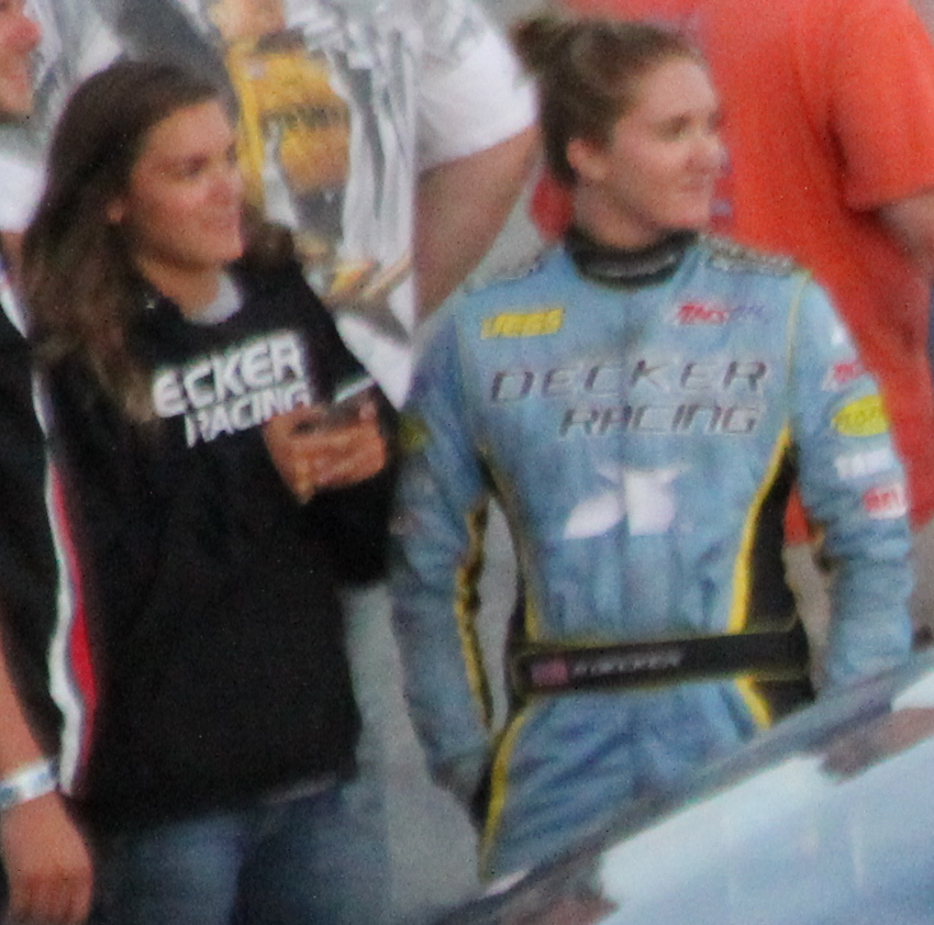 Claire Decker (left) and her sister Paige Decker (right) at the 2015 Slinger Nationals.